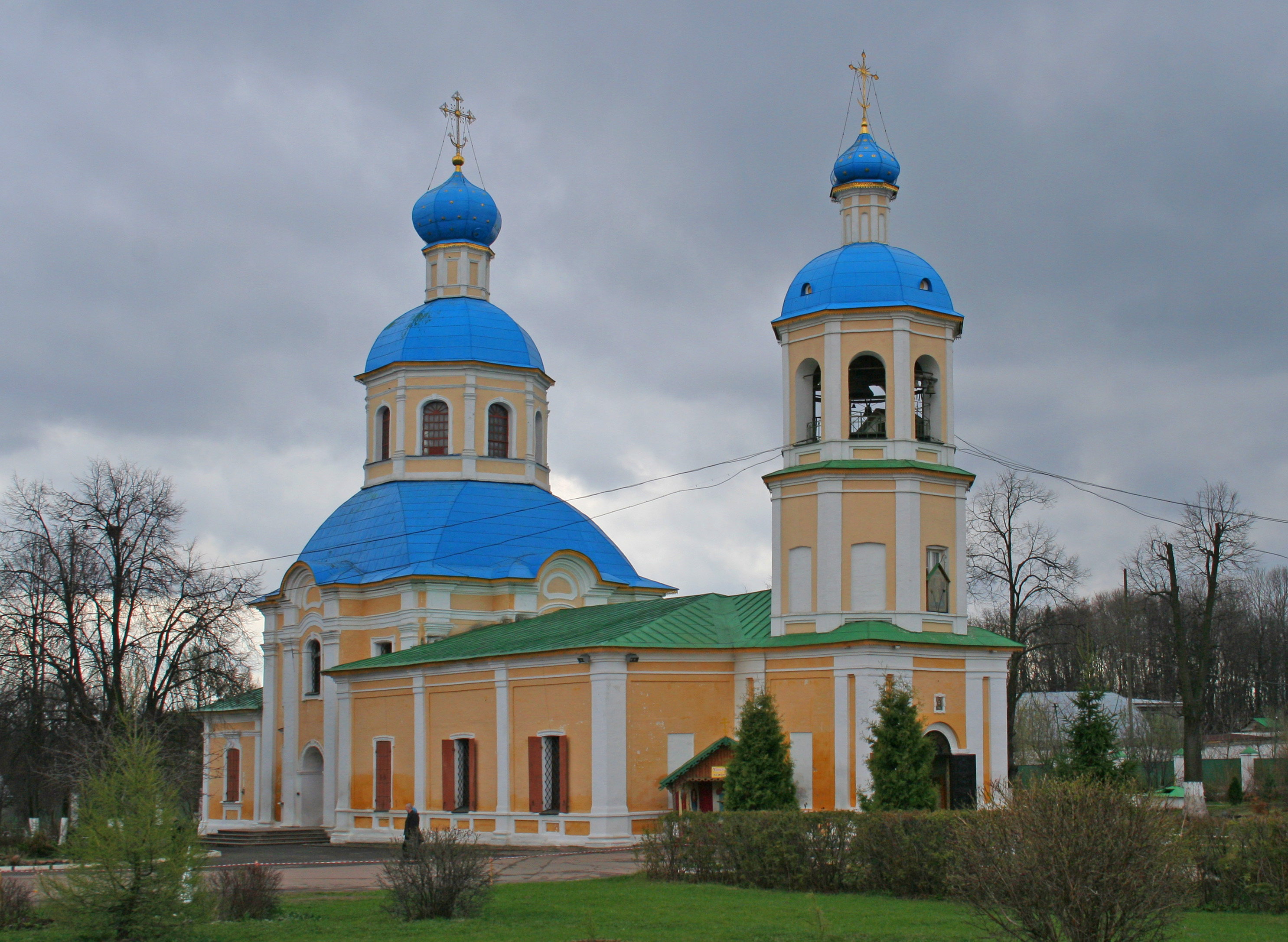 St. Peter and Paul church in Yasenevo, Moscow.